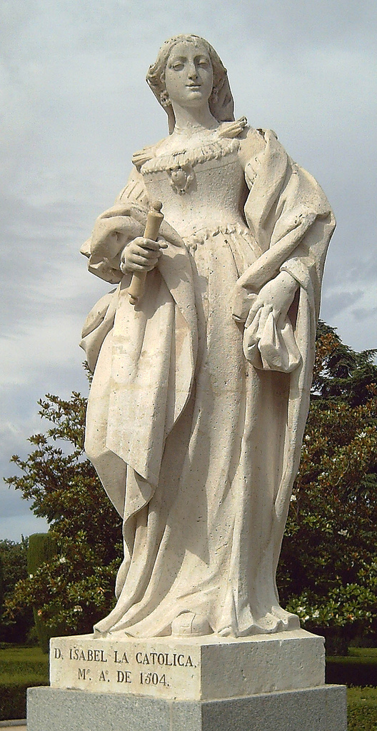 Depicted person: Isabella of Castile.